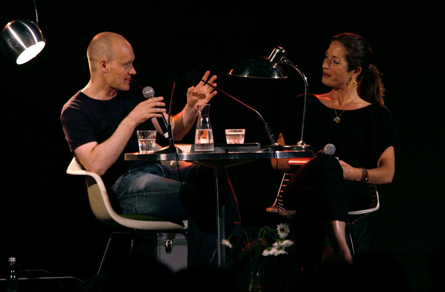 Writer Arno Geiger talking with Felicitas von Lovenberg about his book Alles über Sally; literary festival O-Töne at the Museumsquartier in Vienna